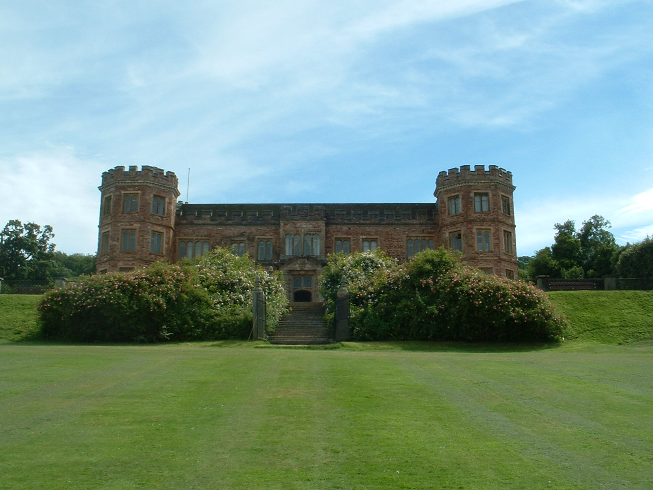 Mount Edgcumbe House, Cornwall. Taken by Necrothesp, 7 July 2005.